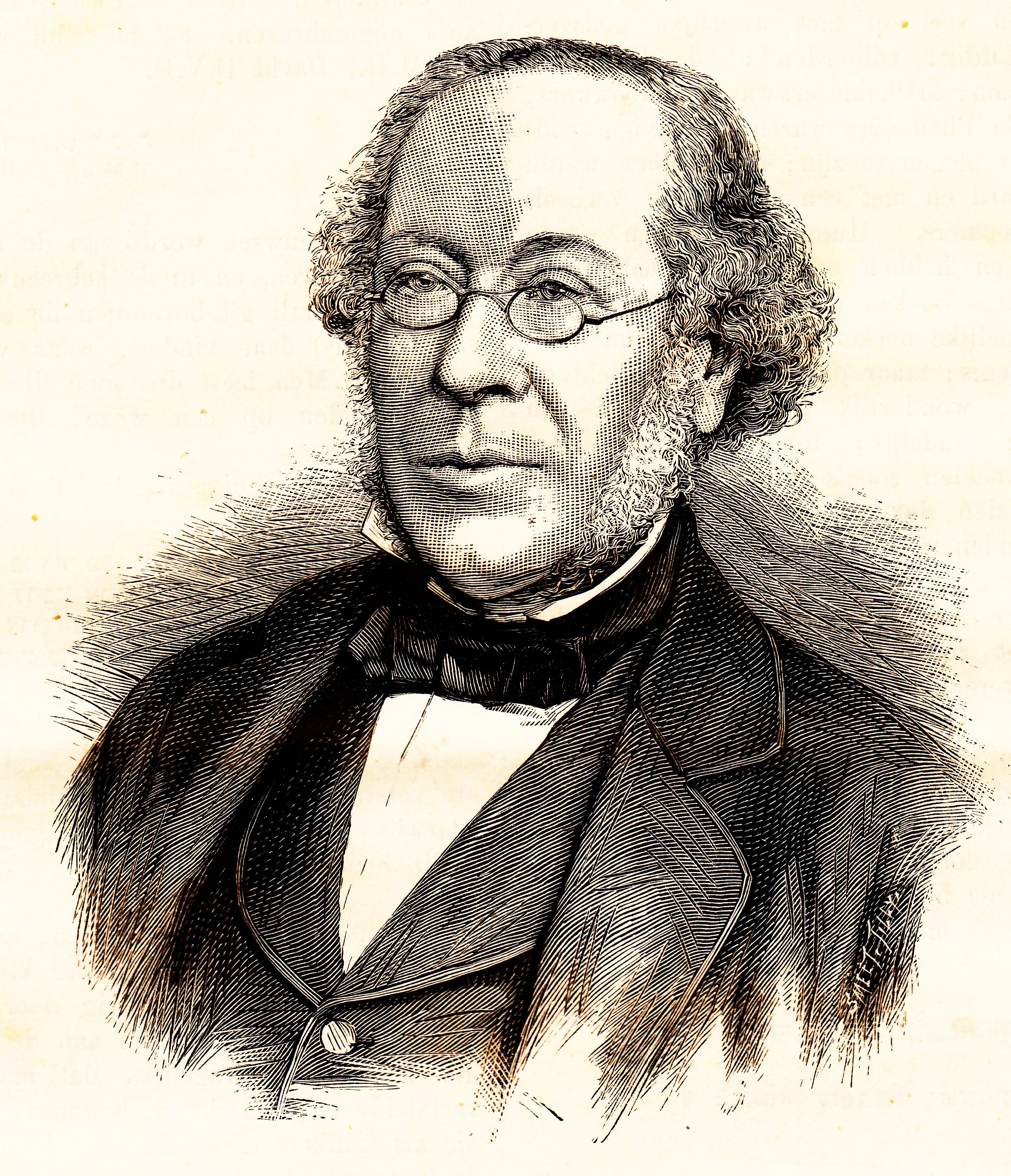 Prof. Mr. George Willem Vreede